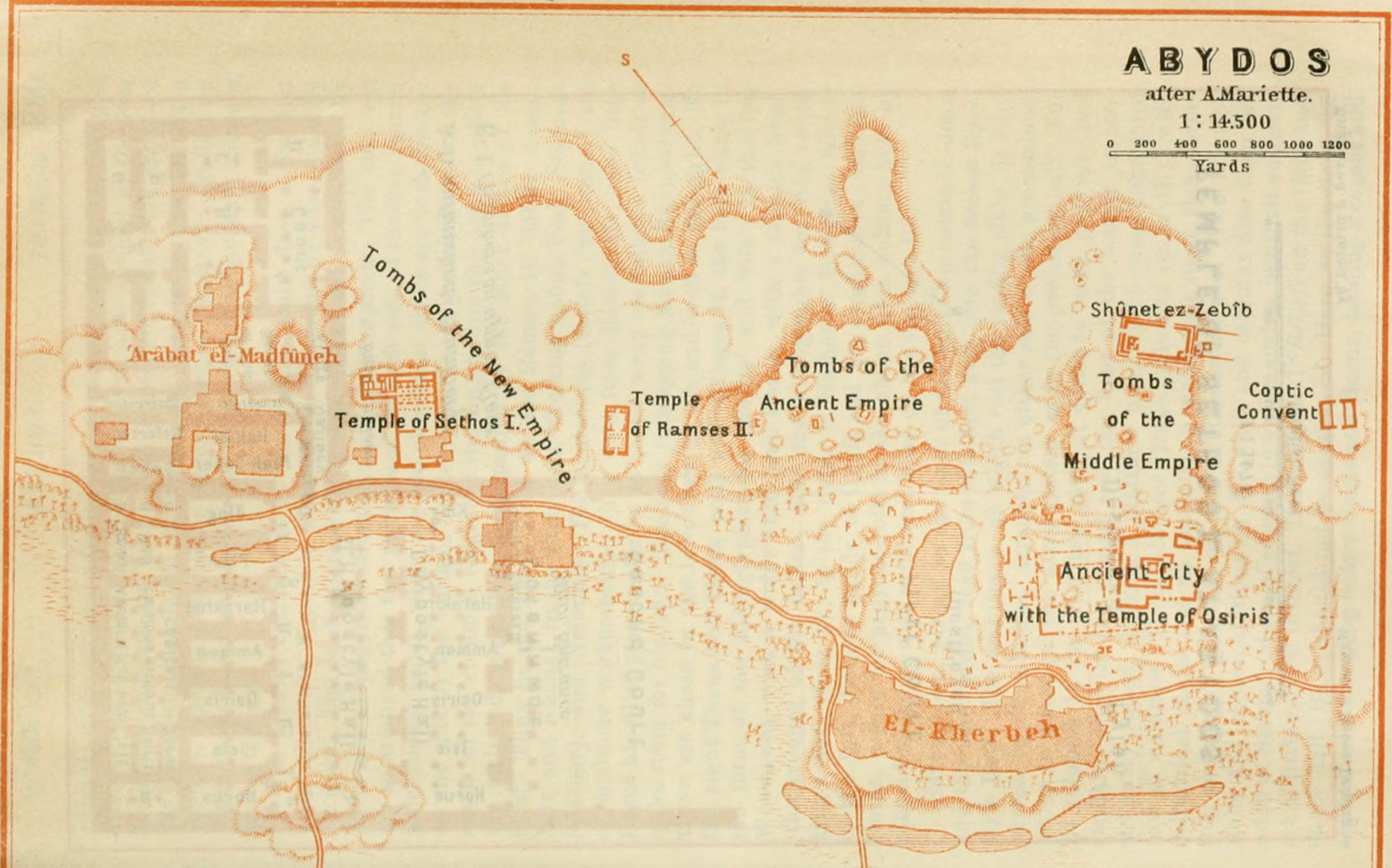 Title: Egypt and the Sûdân; handbook for travellers Year: 1914 (1910s) Authors: Karl Baedeker (Firm) Subjects: Egypt -- Guidebooks Sudan -- Guidebooks Publisher: Leipzig : K. Baedeker New York, C. Scribner's sons (etc., etc.) Text Appearing Before Image: still occupied by modern huts. The Second Court, whicb opens to the S. on the temple proper,is in better preservation. The sons and daughters of Ramses II.were represented oti the wall on the inner side of the pylon, butthe figures and inscriptions have been almost effaced. On the rightand left walls appears Ramses II., sacrificing to different gods; oneach side are steles of Ramses II. At the back of the court alow incline ascends to the vestibule of the temple proper, whichis supported by 12 square piers of limestone and originally hadseven doors in its rear wall. On the wall, to the left of the mainentrance, is a Large Inscription in 95 vertical lines, in whichRamses II. describes in florid language the completion of the temple.In the adjoining relief Ramses is shown presenting an image of thegoddess Maat to a triad consisting of Osiris, Isis, and his fatherSethos I., who takes the place of Horus. On the wall are otherrepresentations of Ramses in presence of the gods. — The seven Text Appearing After Image: '